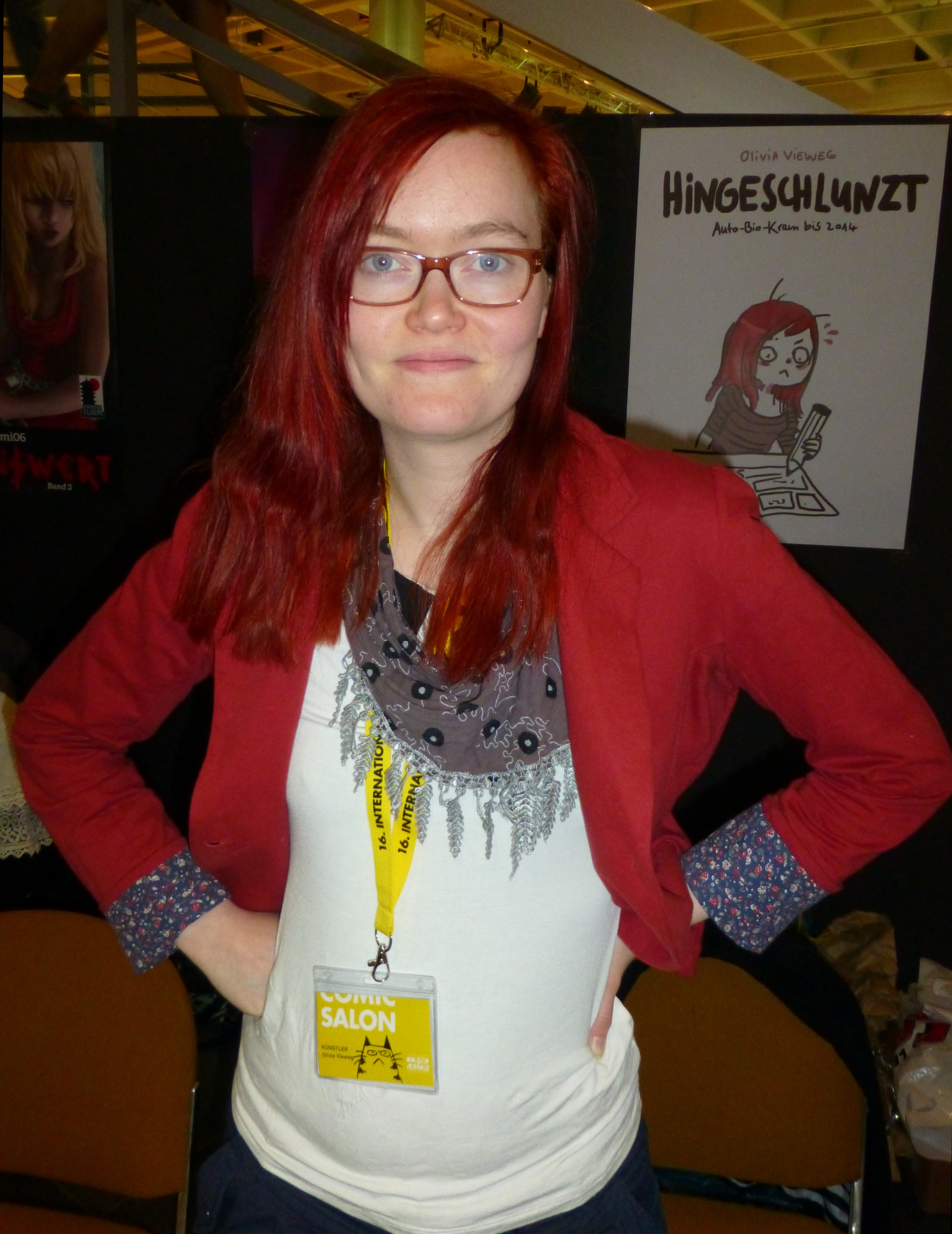 Olivia Vieweg at the Comic Salon Erlangen 2014